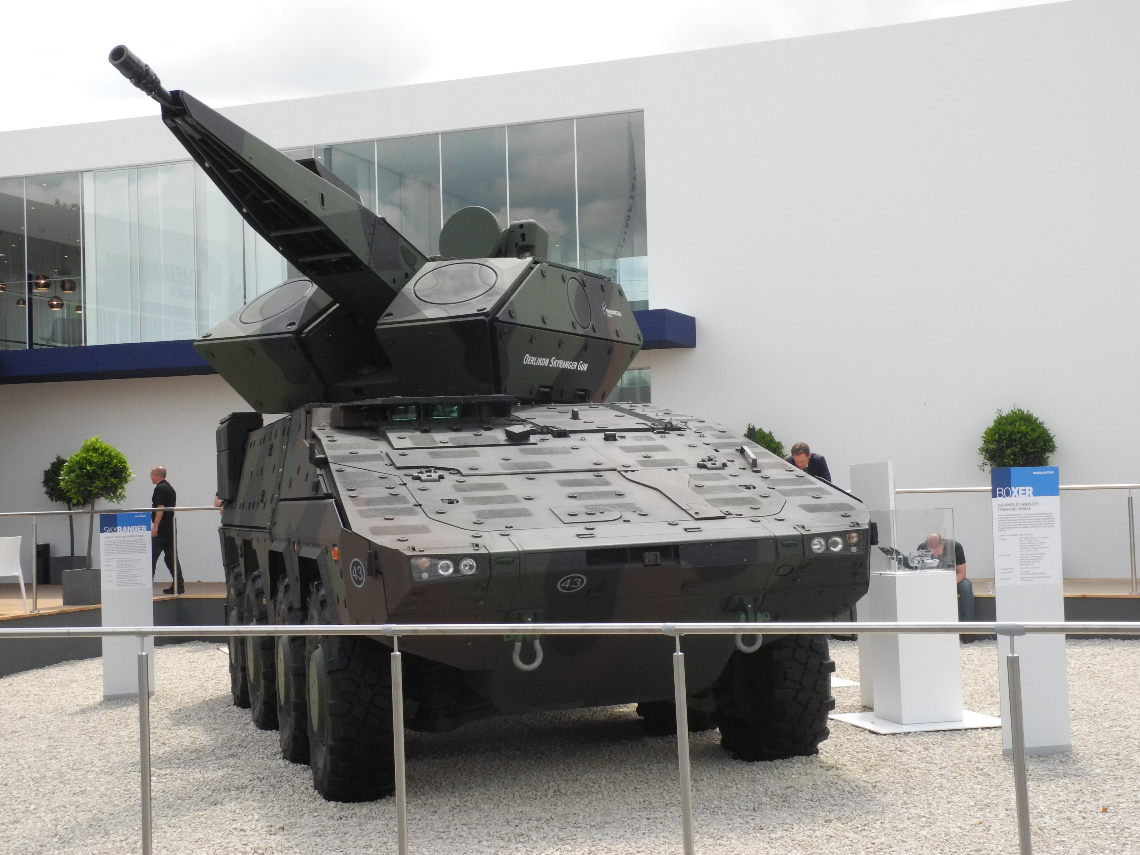 On 4 June 2018 Rheinmetall announced that at Eurosatory 2018 the company would show a Boxer fitted with the Oerlikon Skyranger air defence system.